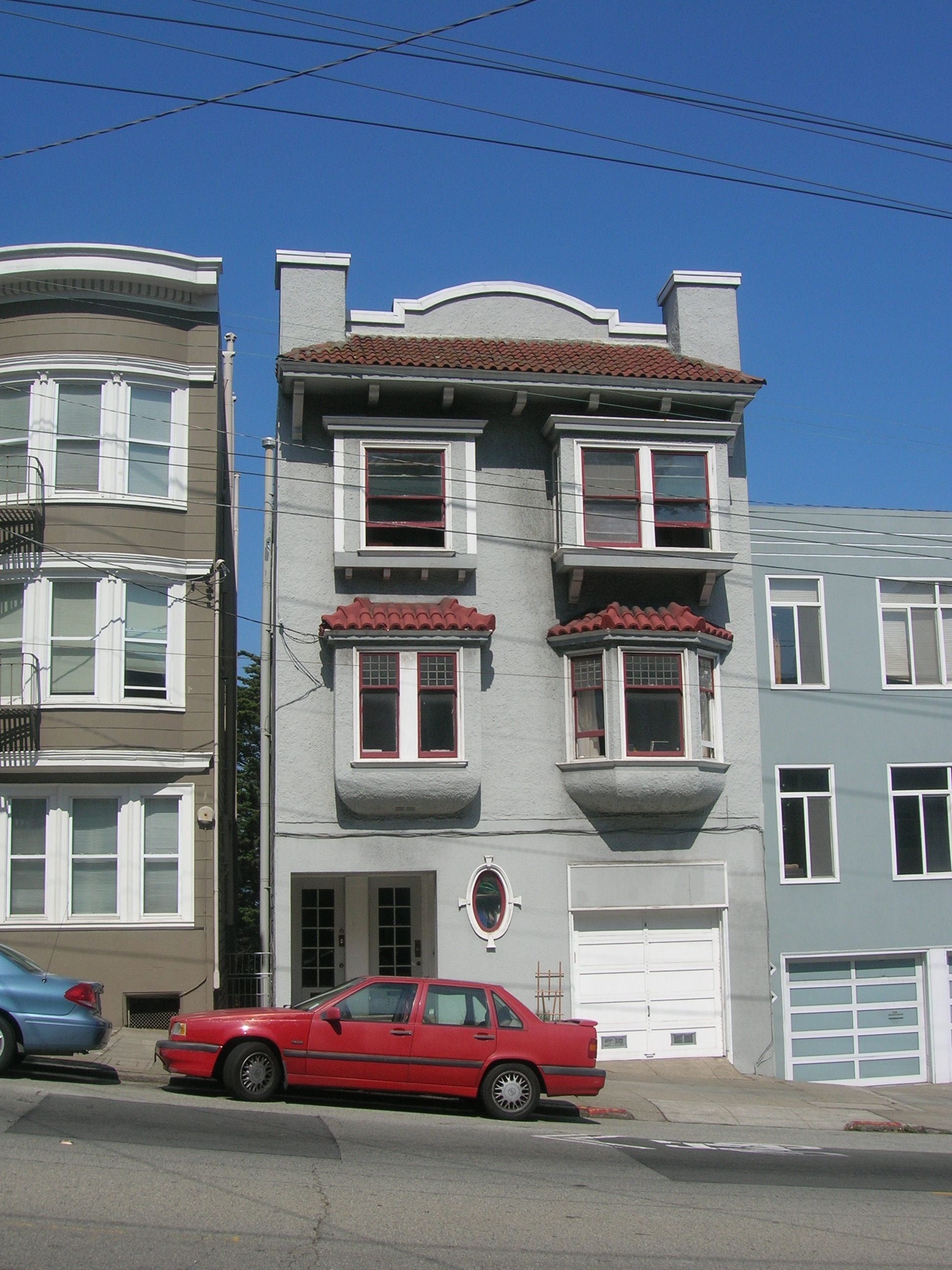 318 Parnassus Ave, San Francisco. Hunter S. Thompson's apartment, described in Hell's Angels: The Strange and Terrible Saga of the Outlaw Motorcycle Gangs.